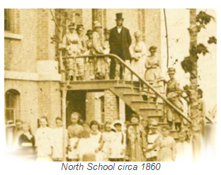 An image of North Elementary